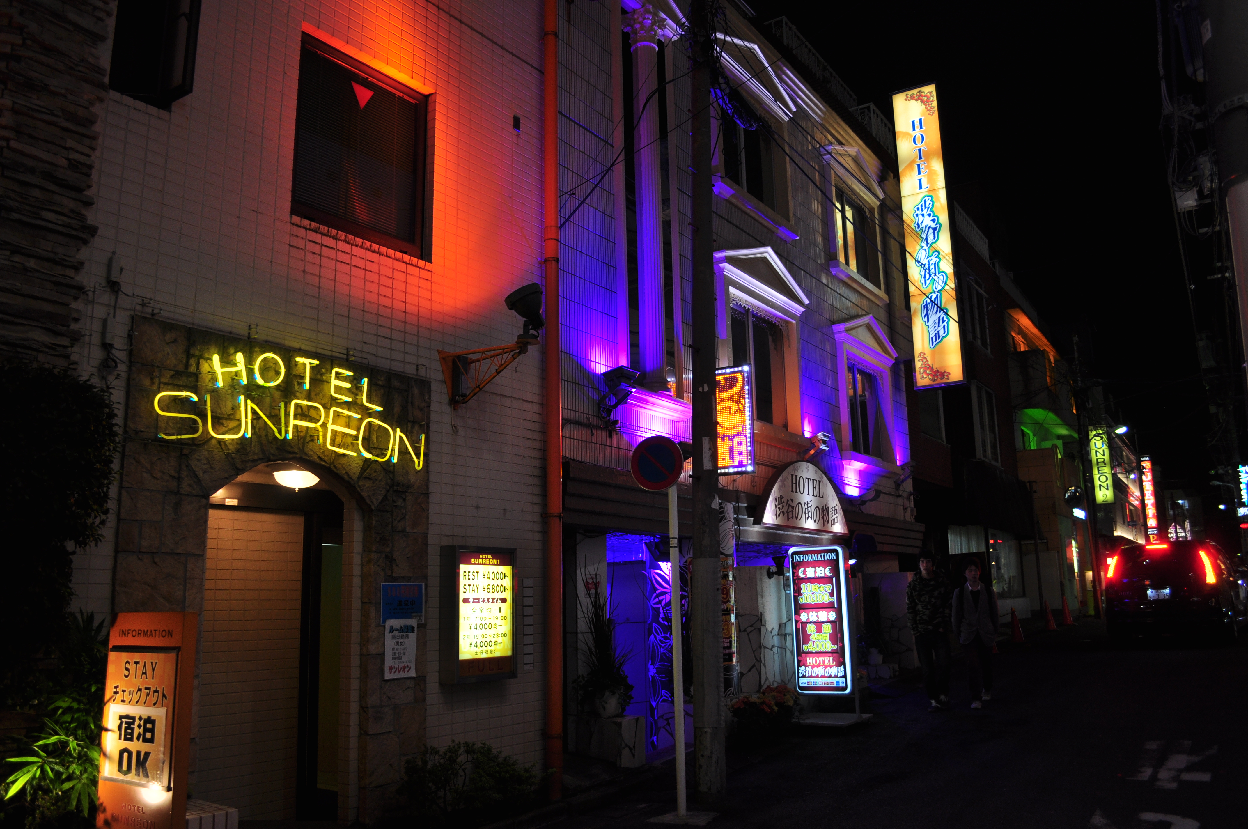 Shibuya, Tokyo at night.